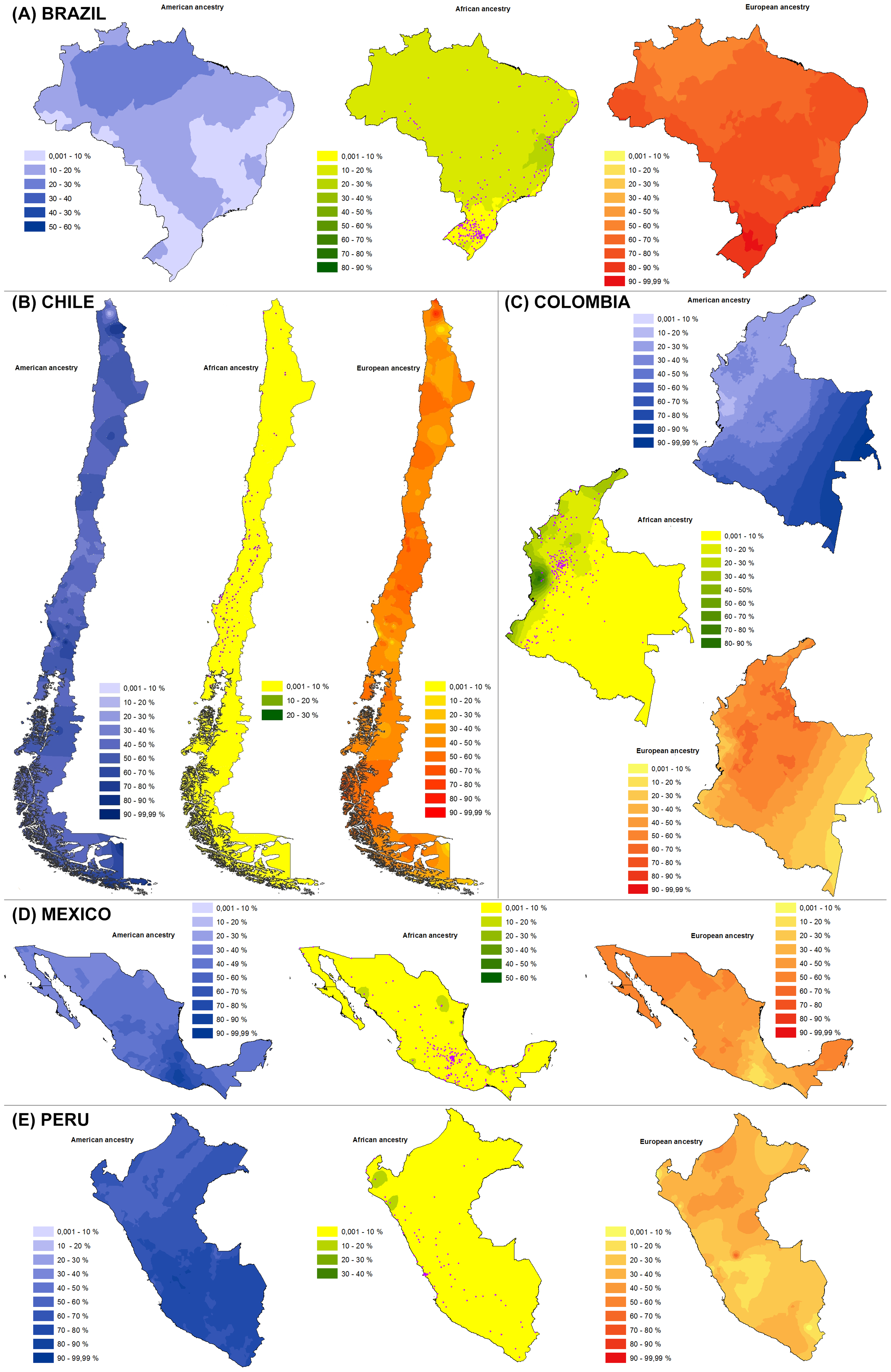 Geographic distribution of Native American (blue), African (green) and European (red) ancestry based on individual estimates for samples from (A) Brazil, (B) Chile, (C) Colombia, (D) México and (E) Perú. To facilitate comparison, color intensity transitions occur at 10% ancestry intervals for all maps. The birthplace of individuals are indicated by purple dots on the African ancestry map.